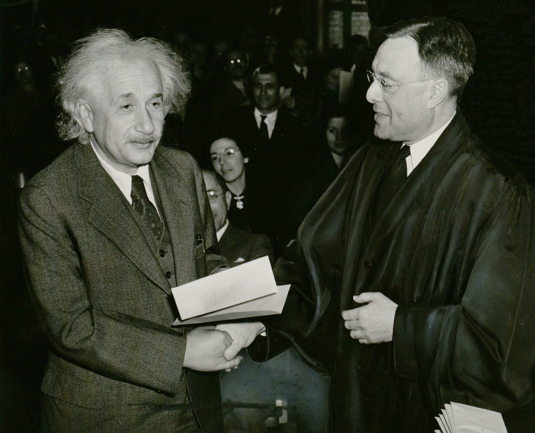 America gains a famous citizen. Photograph shows Albert Einstein receiving from Judge Phillip Forman his certificate of American citizenship.